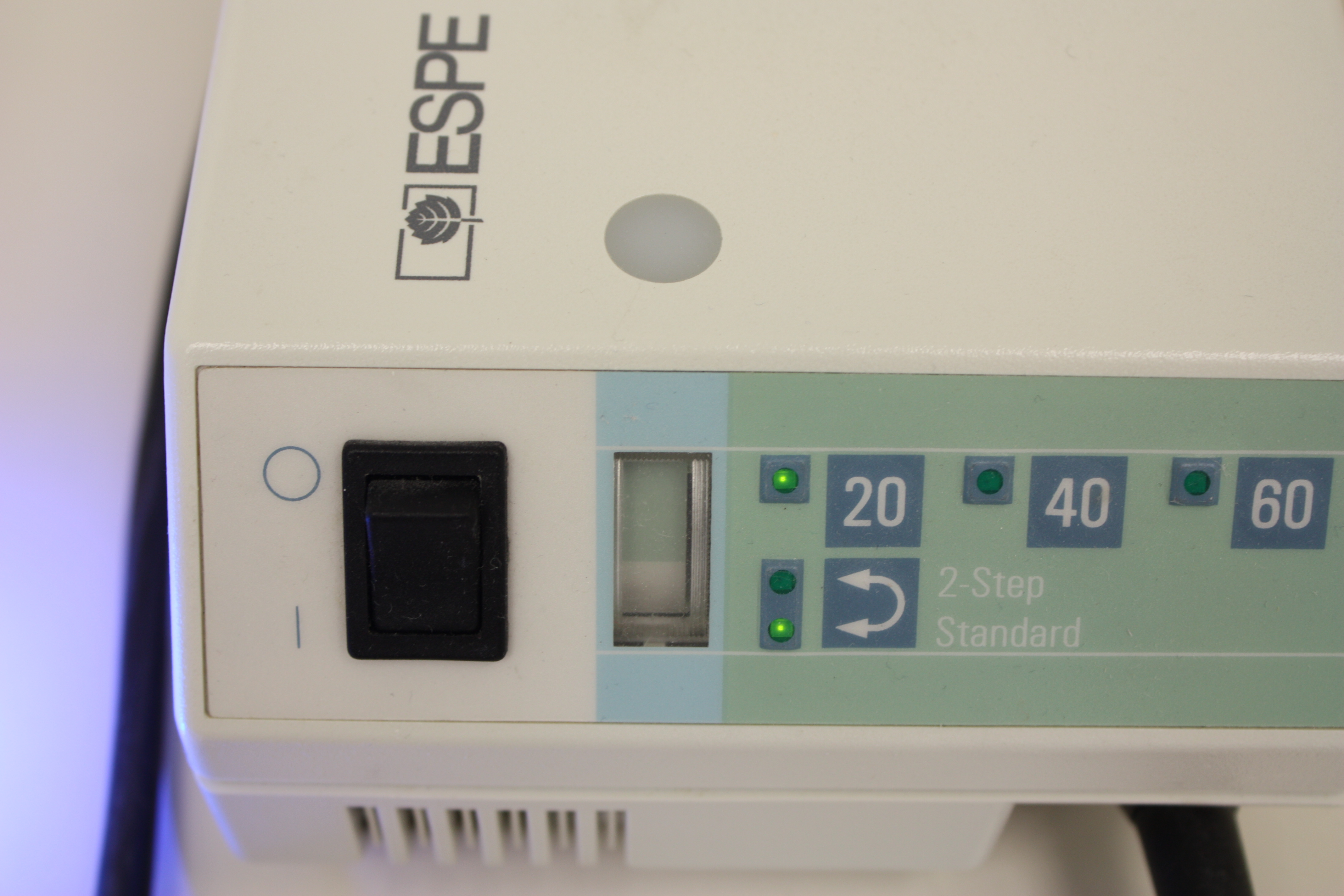 Polymerisationslampe für Komposite (Zahnmedizin) 2009